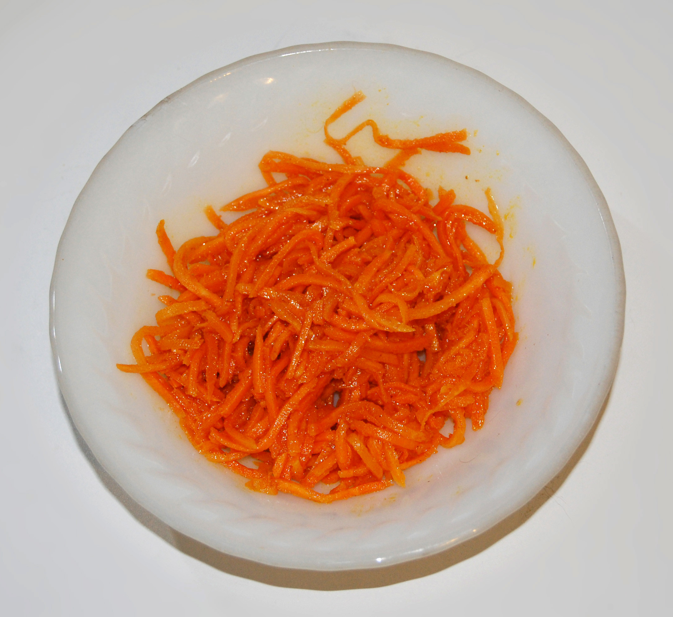 Koreans-style carrot salad. Koryo-saram cuisine.